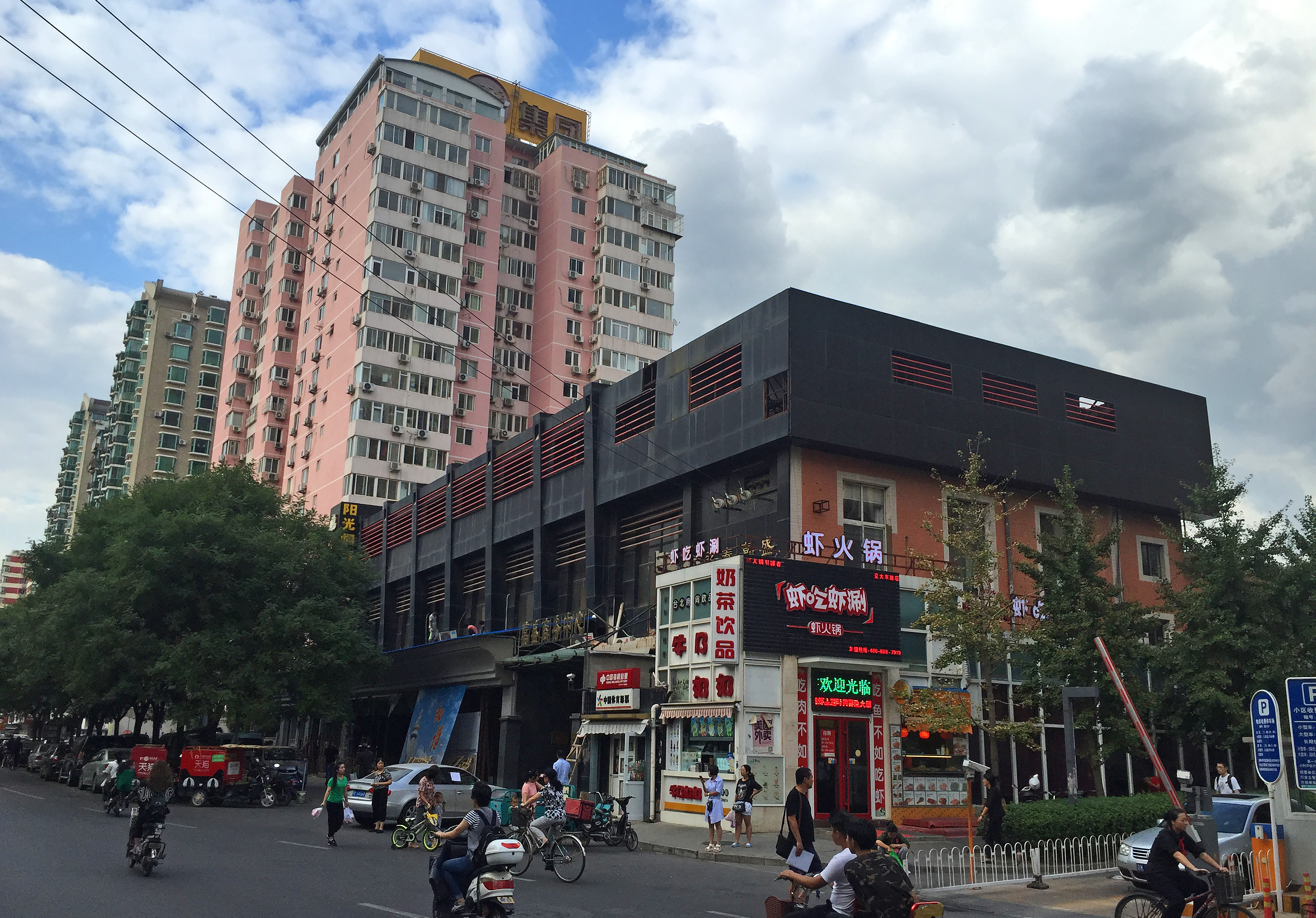 The pink building features billboards which have been here for years. I can see these billboards with adverts of medicines every time when I'm on approach to Xizhimen when riding L13.